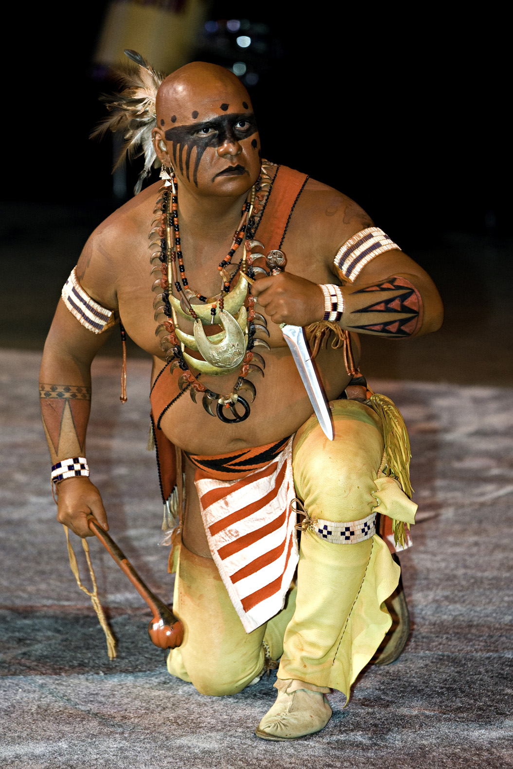 Member of the Warriors of AniKituhwa, a traditional Eastern Cherokee band dance troupe, at the NMAI National Powwow, 2007 Powwows are large, often intribal, social gatherings of Native Americans that feature dances, which continually evolve to include contemporary aspects. These events of drum music, dancing, singing, artistry, and food, are attended by Natives and non-Natives, all of whom join in the dancing and take advantage of the opportunity to see old friends and teach the traditional ways to a younger generation. During the NMAI National Powwow, the audience see dancers in full regalia compete in several dance categories, including Men and Women's Golden Age (ages 50 and older); Men's Fancy Dance, Grass and Traditional (Northern and Southern); Women's Jingle Dress, Fancy Shawl, and Traditional (Northern and Southern); Teens (13-17); Juniors (6-12) and Tiny Tots (ages 5 and younger). The drum groups are the heart of all powwows and provide the pulsating and thunderous beats that accompany a dancer's every movement. This particular powwow is led by three "host drums" that showcase three distinct styles of singing (Northern, Southern and contemporary) and represent the best examples of each style. The drum contest highlights groups of 10 to 12 members each, and they sing traditional family songs that are passed down orally from one generation to the next. The National Museum of the American Indian sponsored the National Powwow in 2002, 2005, and 2007 as a way of presenting to the public the diversity and social traditions of contemporary Native cultures. Creator/Photographer: Ken Rahaim Medium: Digital photograph Culture: American Indian Geography: USA Date: 2007 Persistent URL: Repository: National Museum of the American Indian Accession number: 07natl-powwow_0012